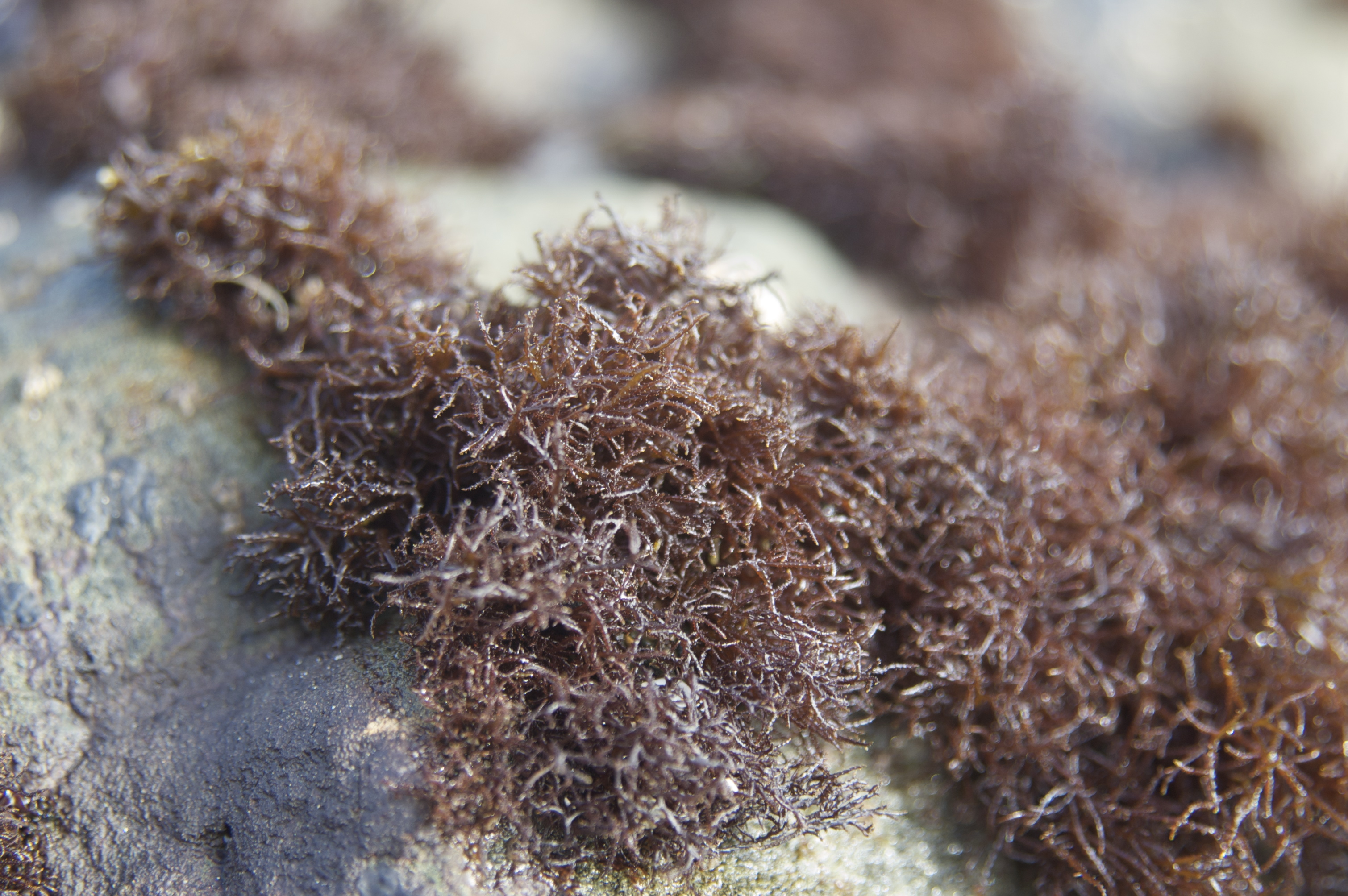 Close up of the Nail Brush algae. Good to photograph because the sensors pick up the contrast.